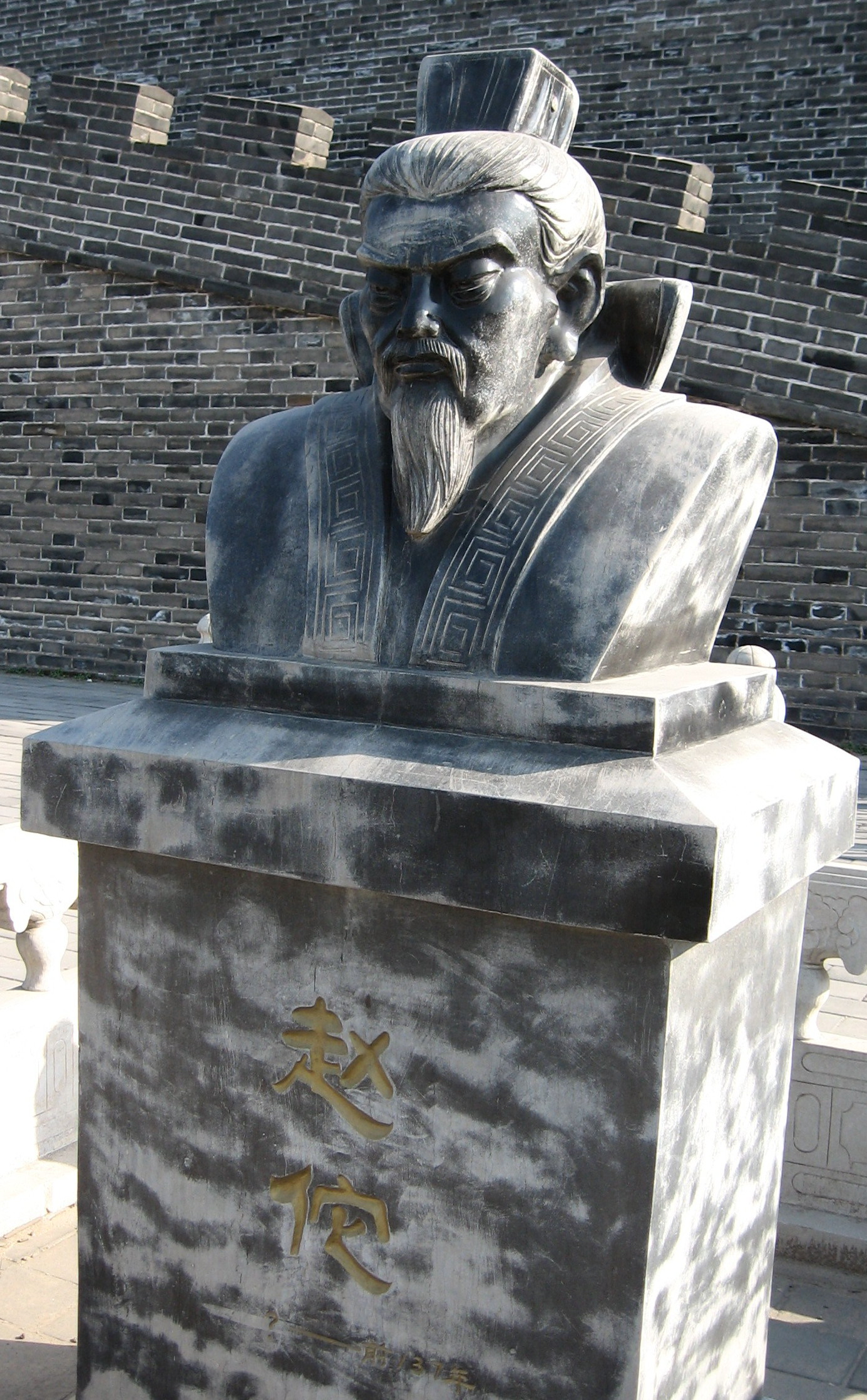 A statue of Zhao Tuo.中国河北省正定县南城门（长乐门）内的赵佗雕像。